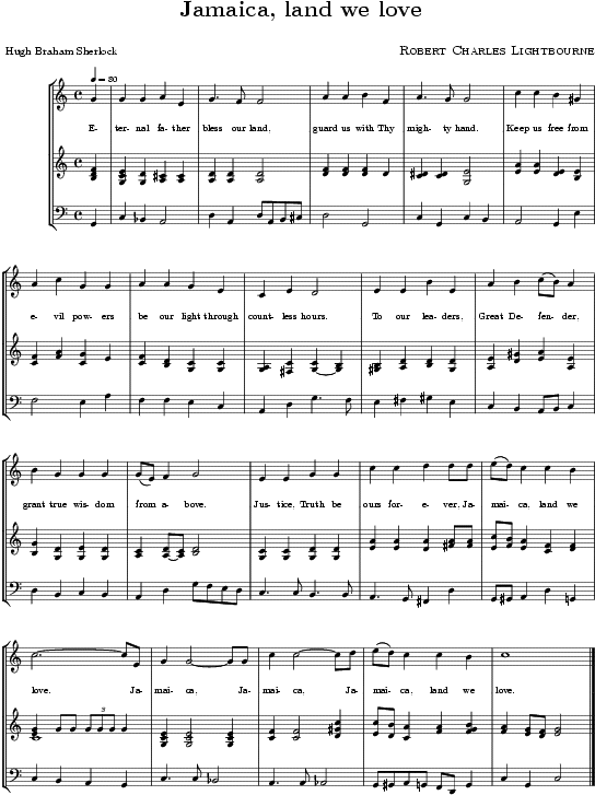 Jamaica, Land We Love (1962), page 1